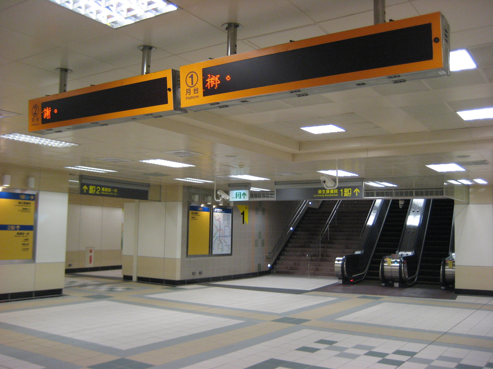 Taipei MRT Huilong Station to Exit 1 and Exit 2